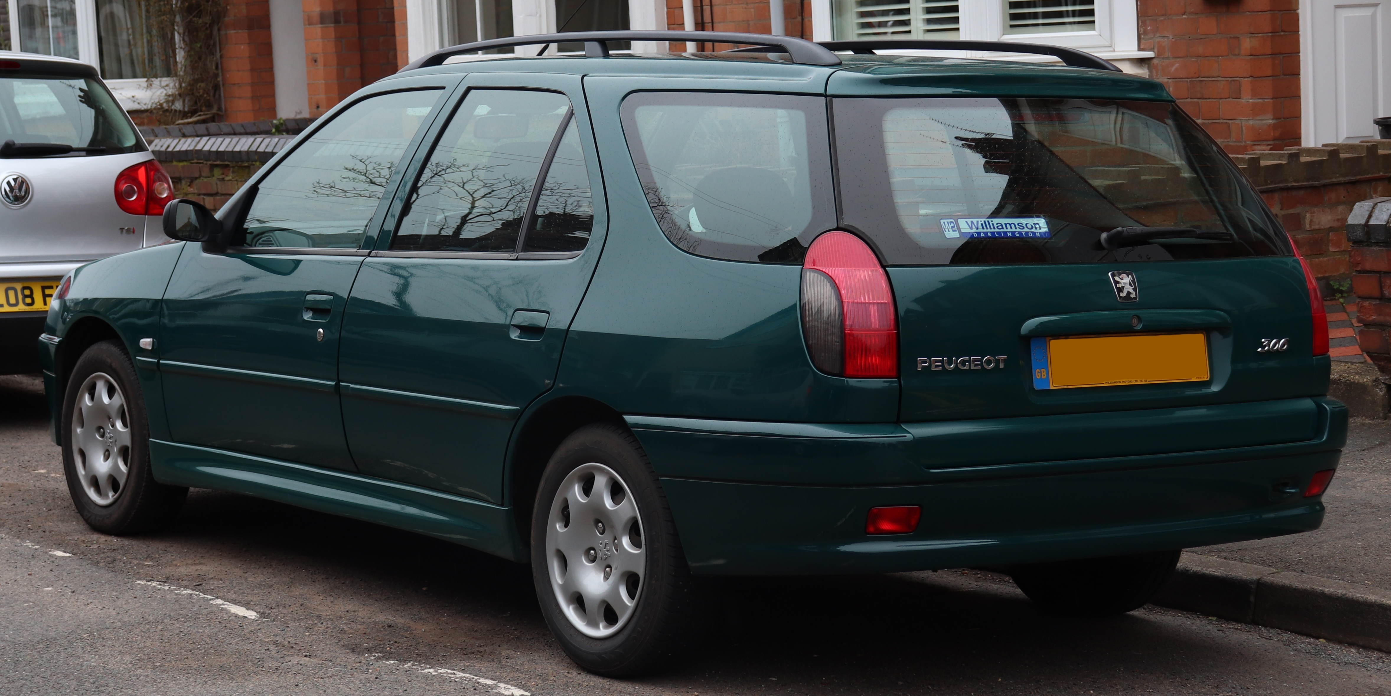 2000 Peugeot 306 L Estate 1.4 Rear Taken in Warwick